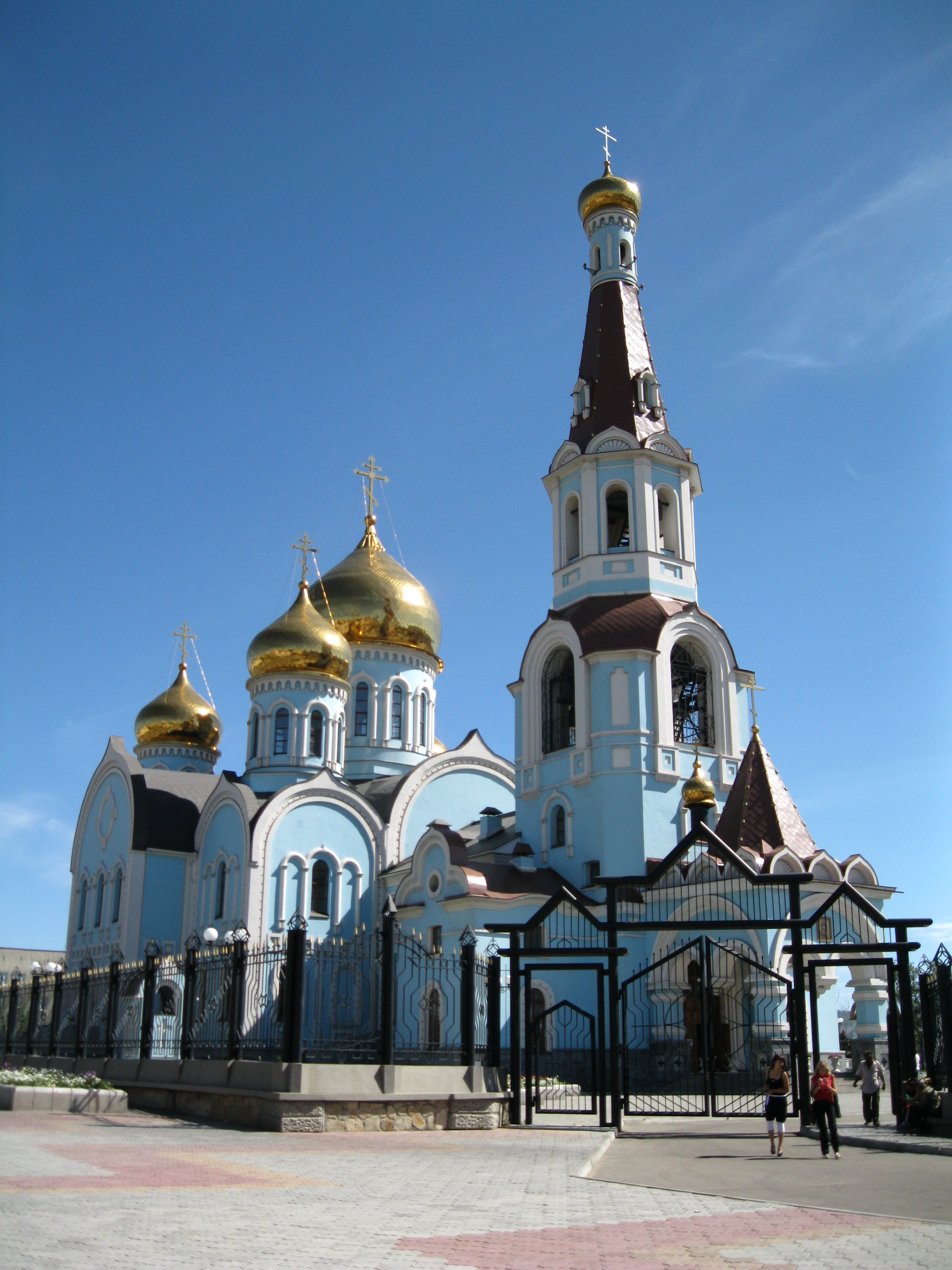 Kazansky orthodox cathedral in Chita, Russia